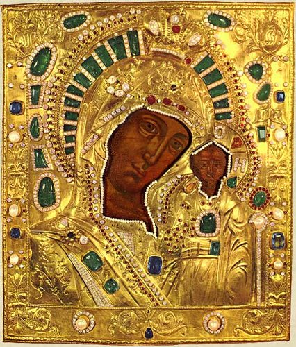 Our Lady of Kazan (Fatima image)